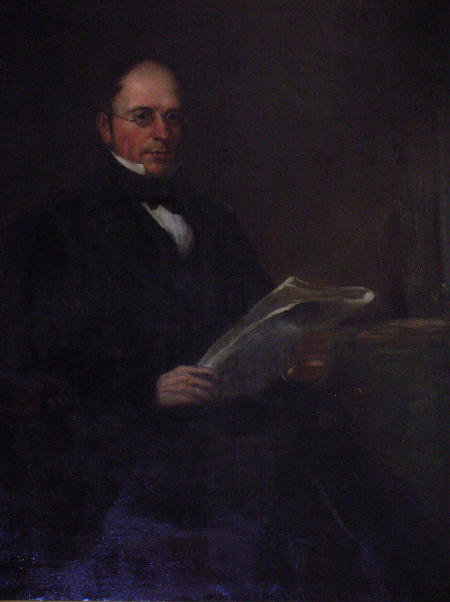 William Ralston Patrick of Roughwood and Woodside, Beith, Ayrshire, Scotland